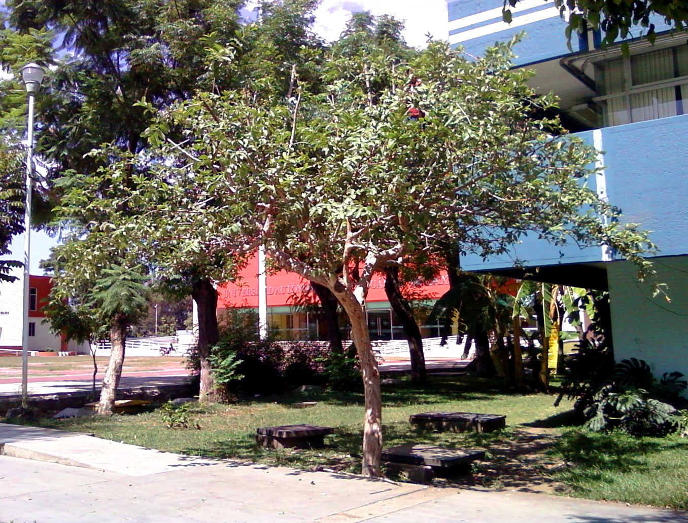 Guava tree on the main campus of the Universidad Autónoma Benito Juárez de Oaxaca in Oaxaca de Juarez, Oaxaca, Mexico.